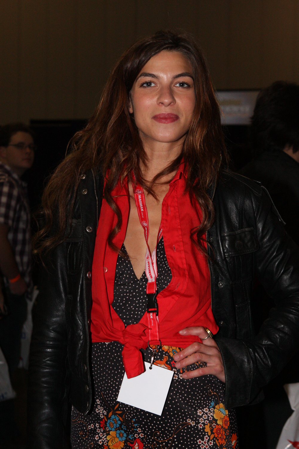 Natalia Tena at Supernova Pop Culture Expo Hits Sydney, Australia